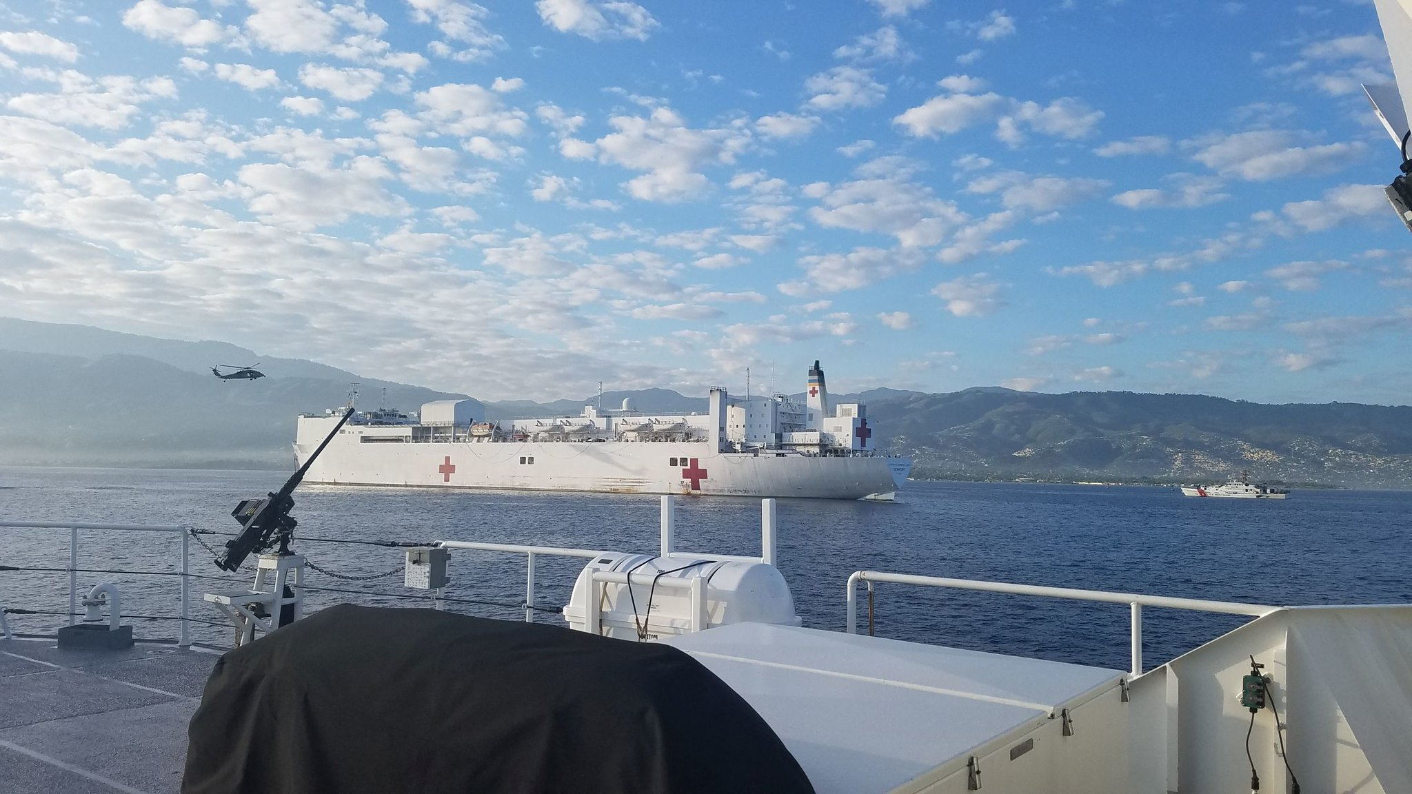 Original caption: "Coast Guard, Navy working together during USNS Comfort Deployment 2019 The Coast Guard Cutters Margaret Norvell (WPC-1105) and Kathleen Moore (WPC-1109) crews provide force protection and enforce a 500-yard security zone around the U.S. Navy hospital ship USNS Comfort (T-AH 20), Nov. 4, 2019 as the hospital ship crew provides medical assistance in Haiti, demonstrating the United States’ enduring promise and commitment to the region. The USNS Comfort 5-month multinational, multi-service and public-private medical assistance mission has treated 64,151 patients in Ecuador, Peru, Costa Rica, Panamá, Colombia, Trinidad and Tobago, Grenada, St. Lucia, St. Kitts and Nevis, Dominican Republic and Jamaica. U.S. Coast Guard photo"